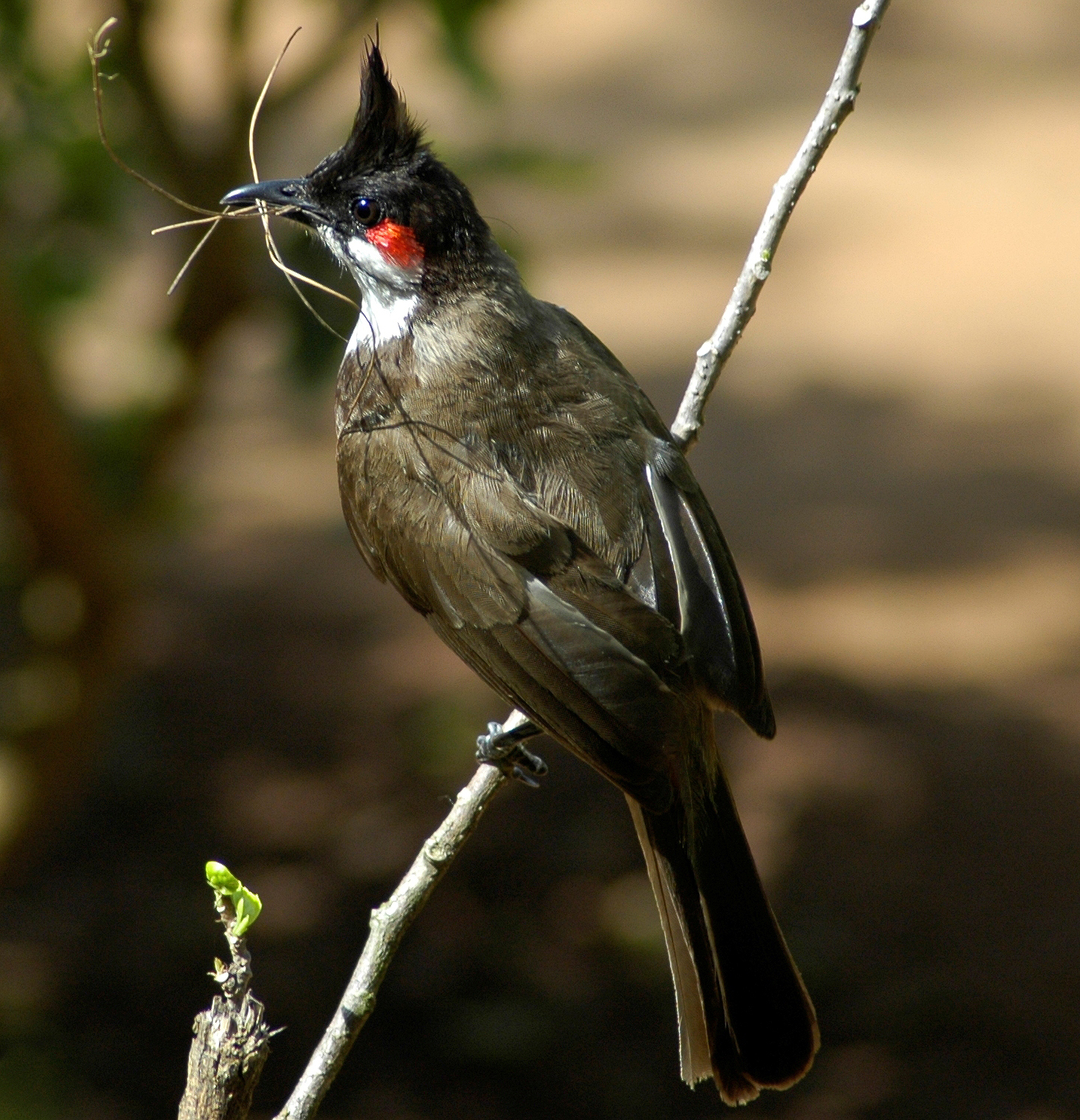 Red-whiskered Bulbul photographed in Karnataka, India.